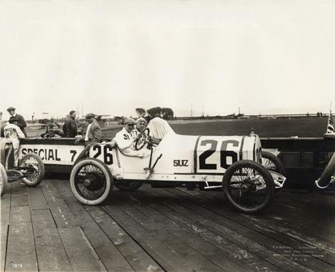 Howdy Wilcox poses in his Stutz before either the 1915 American Grand Prize and Vanderbilt Cup in San Francisco.